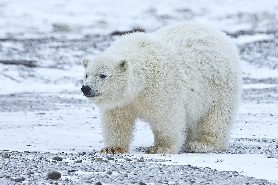 Polar Bear (Cub), Arctic National Wildlife Refuge, Alaska